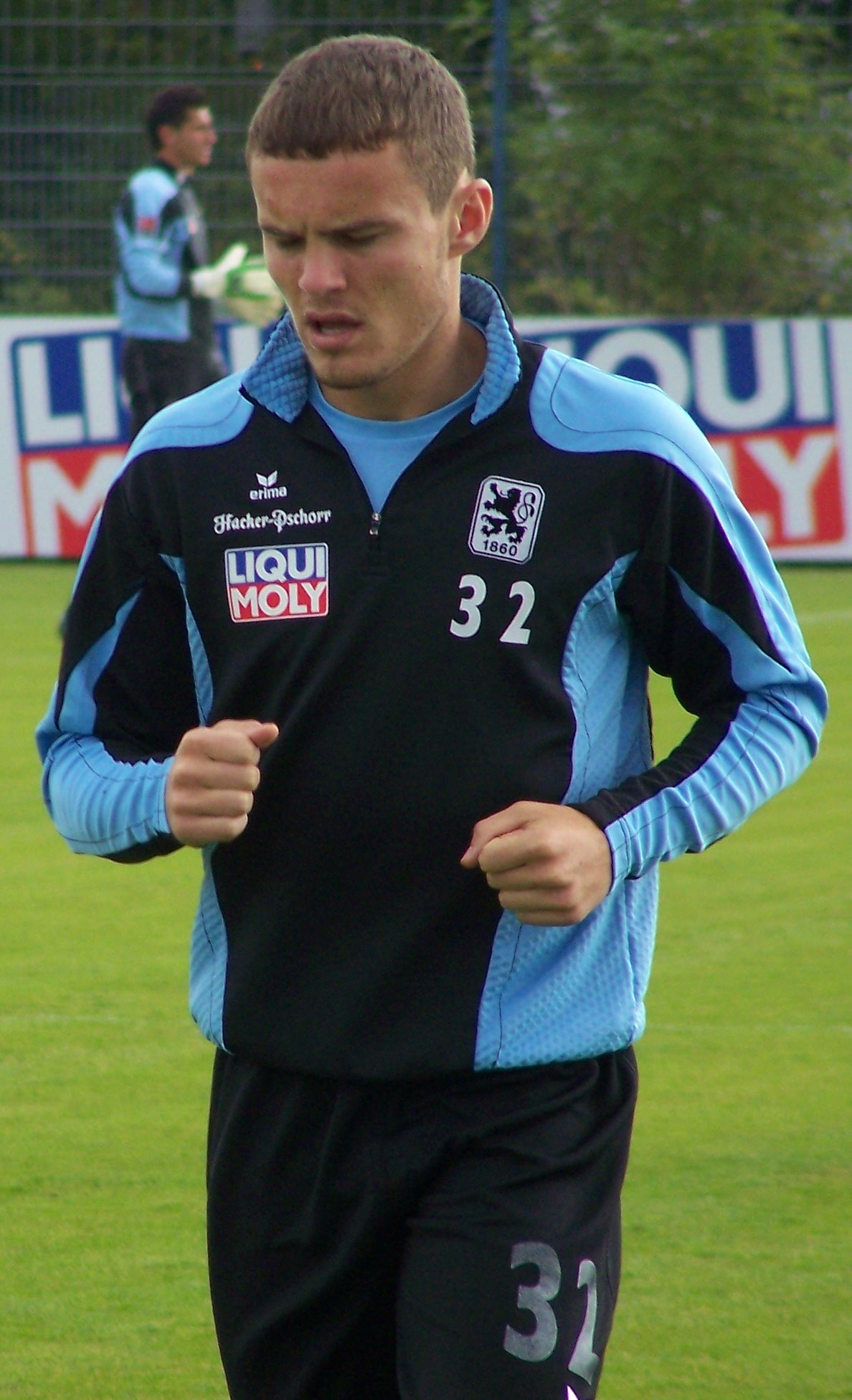 Kushtrim Lushtaku, 1860 munich, training